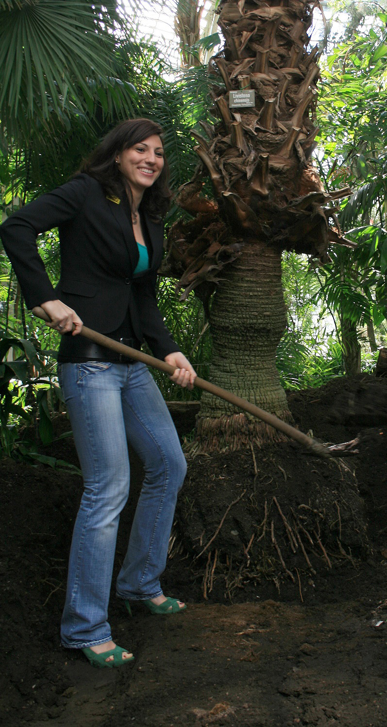 Austrian swimmer and 'Austrian sportswoman of the year 2002', Mirna Jukić, portrayed when planting "Mirna palm tree", a Livistona chinensis placed at the center of the palm house at Schönbrunn, Vienna, Austria. This 50 years old plant is the successor of 170 years old "Sisi" or "Sissi" palm tree, which had been planted at the very same spot but had to be cut down in February 2008 for having grown too tall.